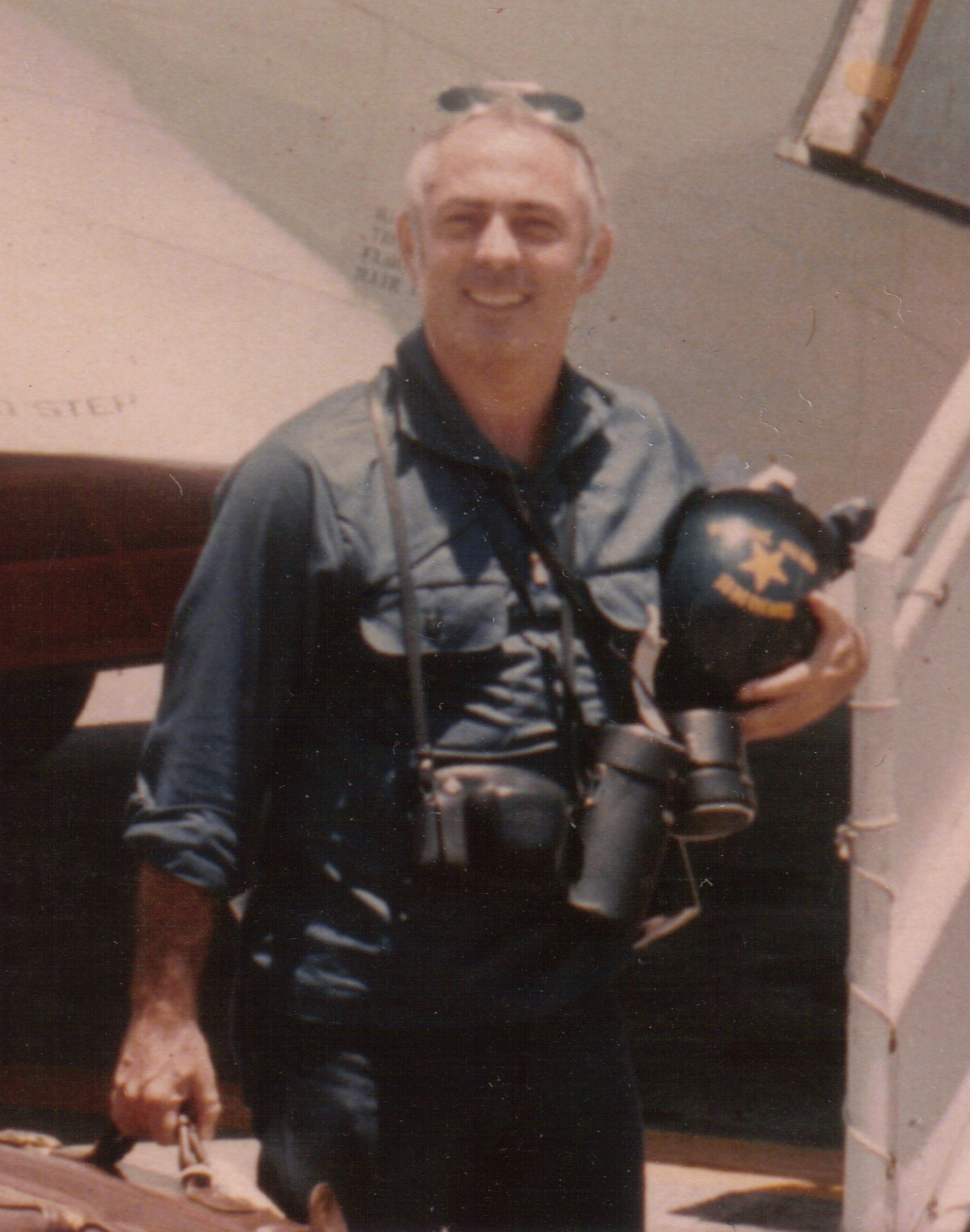 Consul General Francis Terry McNamara in May, 1975 boarding a Navy aircraft at Subic Naval Base after evacuating from Can Tho.